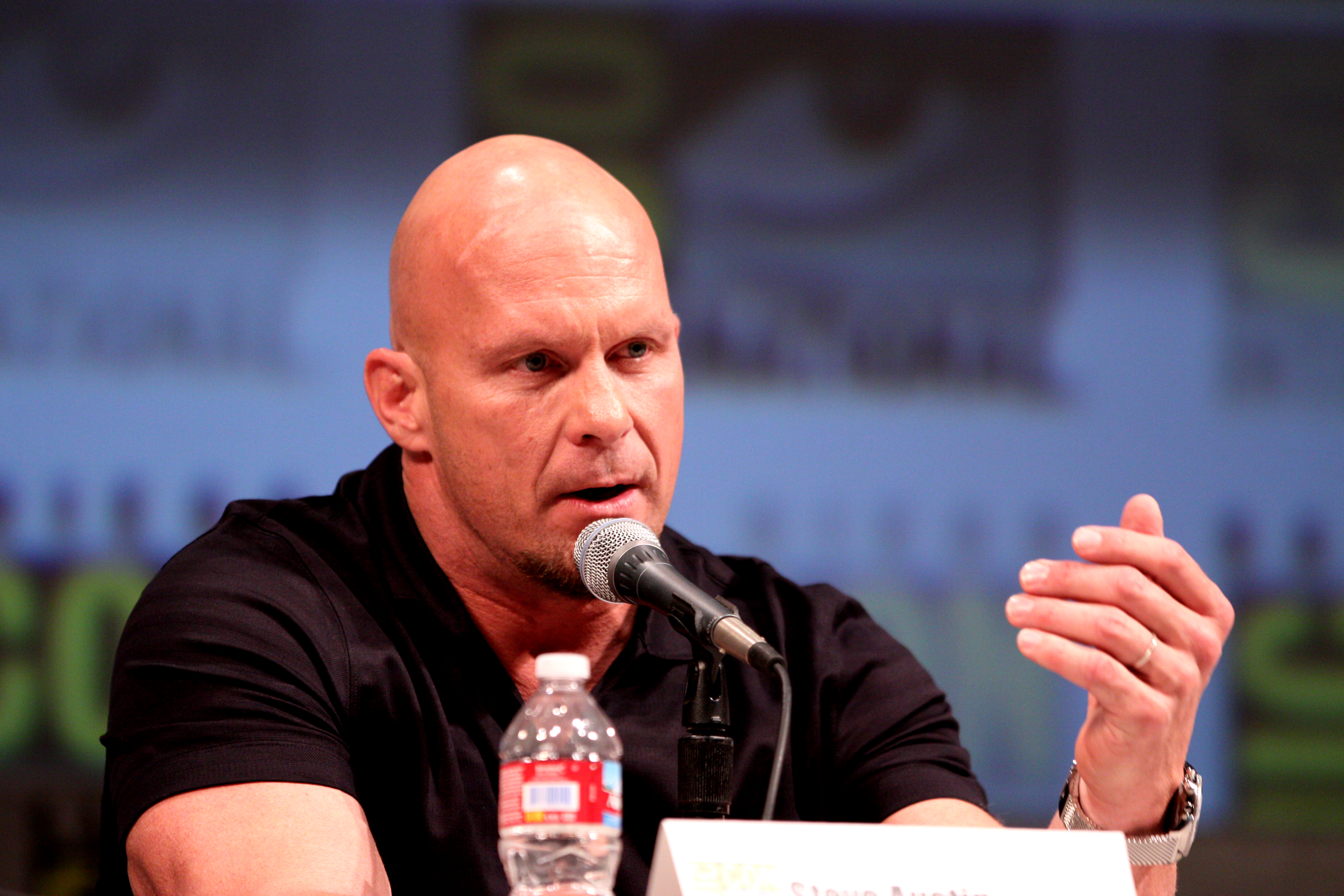 Wrestler and actor Stone Cold Steve Austin on the Expendables panel at the 2010 San Diego Comic Con in San Diego, California.